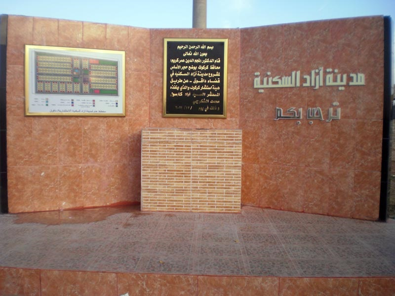 Azad City in Kirkuk One Azad Al-Shakarchi projects and includes 4,600 housing units